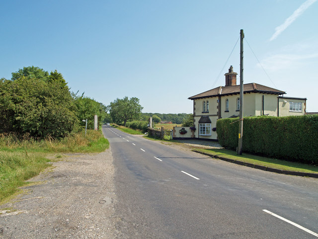 Station Cottage, Station Road, Holton-le-Clay